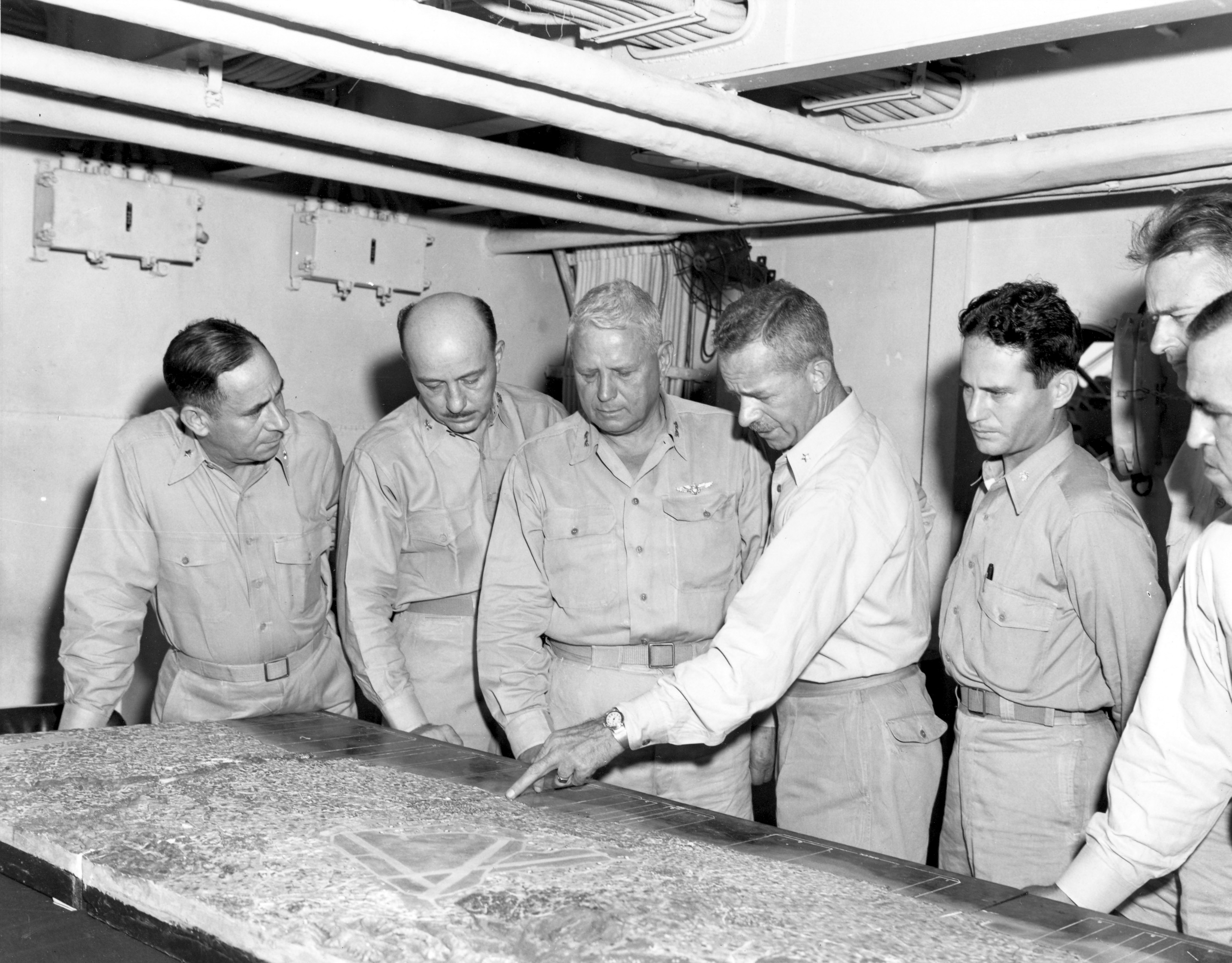 General Geiger and his staff during the planning of Okinawa Campaign, March 31 1945. From left to right: Brigadier general David R. Nimmer - Commanding general of III Marine Amphibious Corps Artillery Colonel Walter A. Wachtler - III MAC G-3 Officer (Operations) Major general Roy S. Geiger - Commanding general of III MAC Brigadier general Merwin H. Silverthorn - III MAC Chief of Staff Lieutenant colonel Sidney S. Wade - Assistant G-2 Officer (Intelligence) Colonel Francis B. Loomis Jr. - III MAC G-4 (Logistics) Colonel Gale T. Cummings - III MAC G-1 (Personnel) DEFENSE DEPT PHOTO (MARINE CORPS) 116365